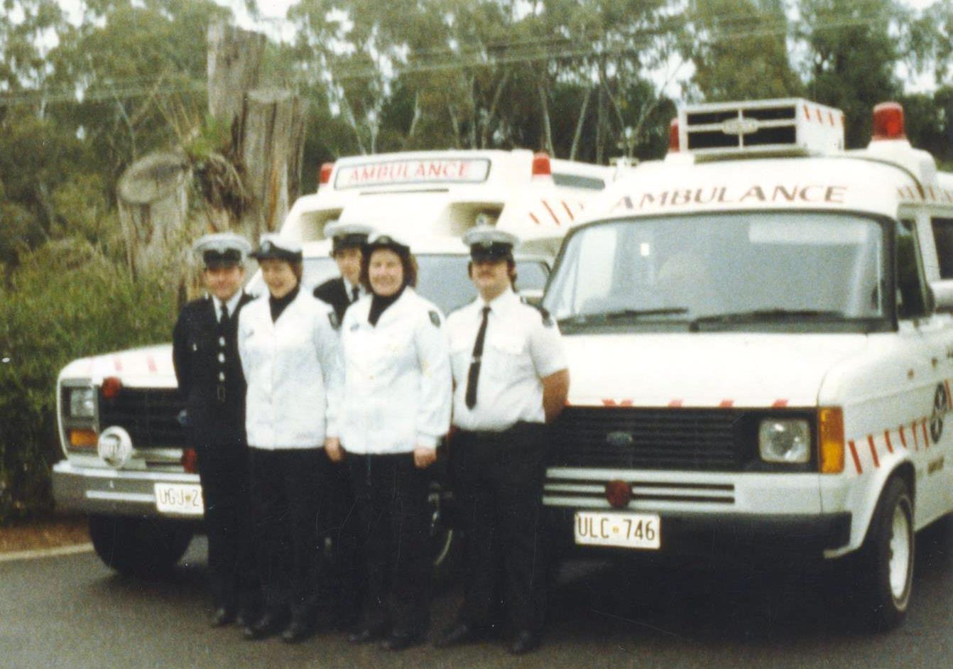 St John ambulance vehicles and personnel 1987